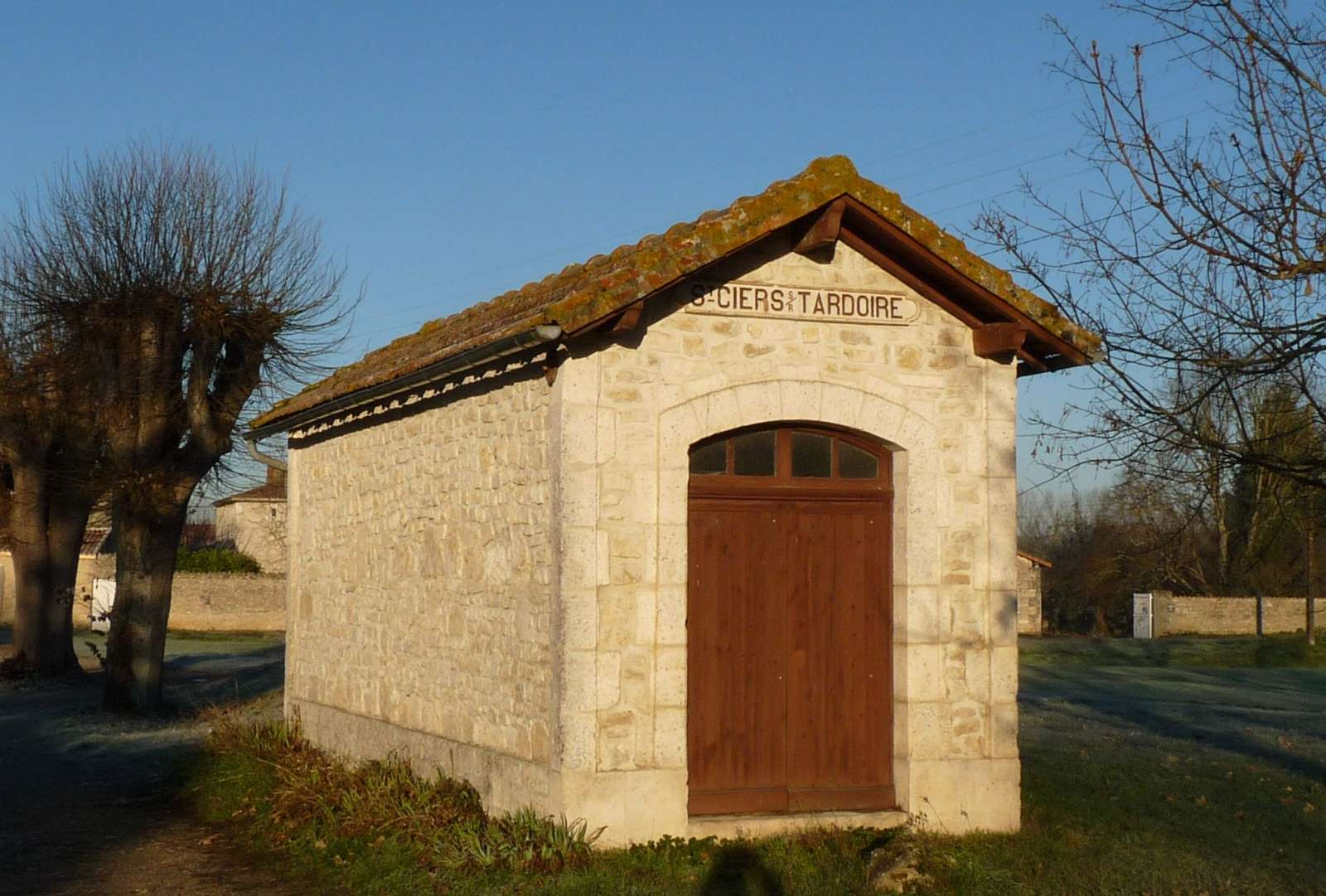 former train station